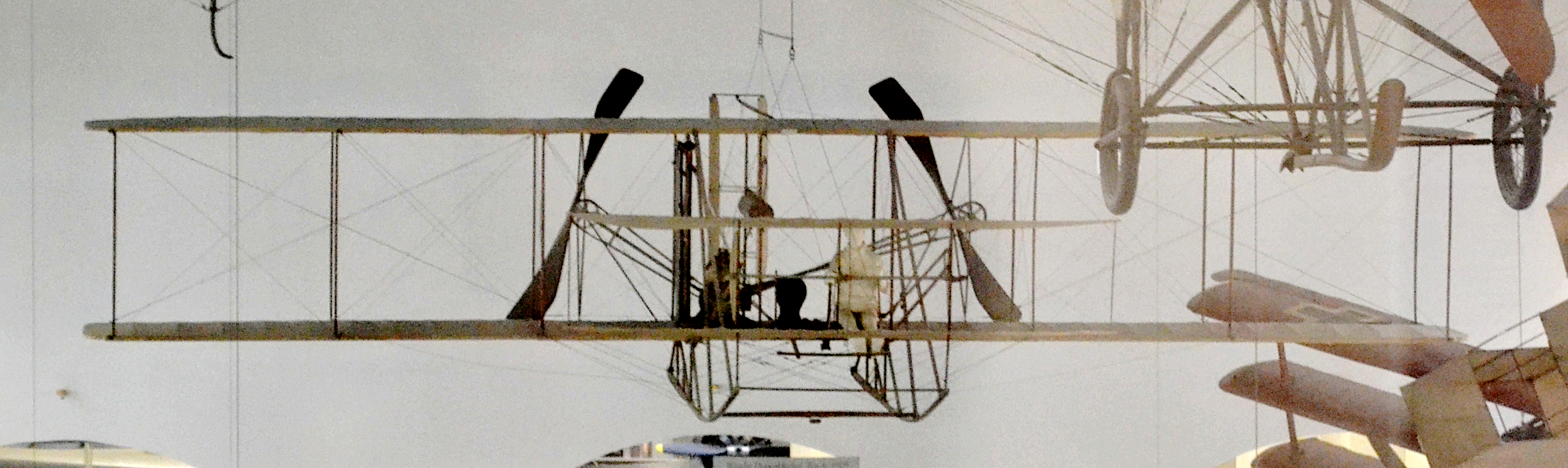 Front view of the only surviving Wright Model A biplane. The aircraft is in the Deutsches Museum in Munich, Germany. See here for further information (in German)